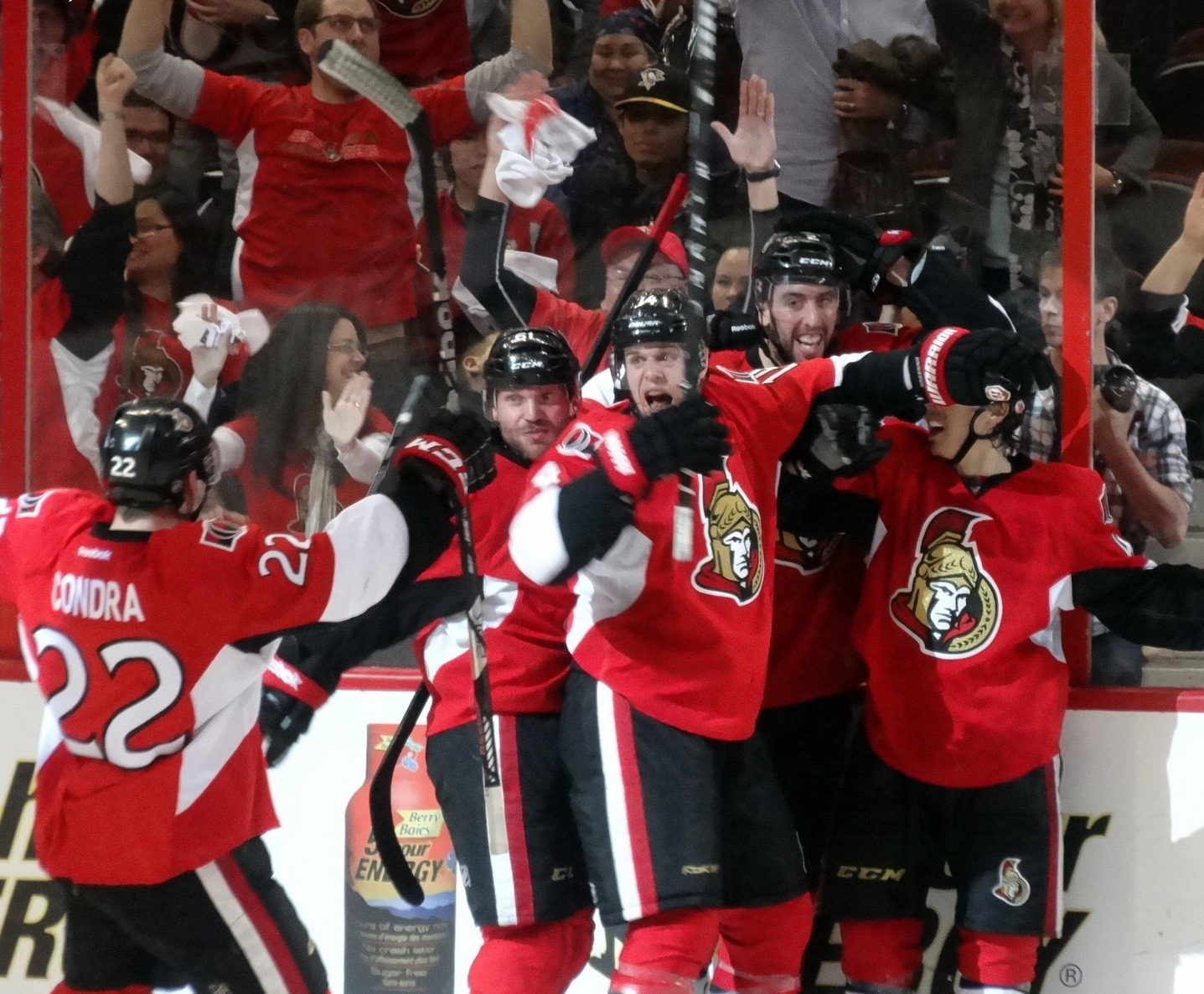 Ottawa Senators forward Colin Greening scored the game winning goal in the second overtime of game three of their second round series against the Pittsburgh Penguins, May 19, 2013 at Scotiabank Place in Ottawa, Canada.